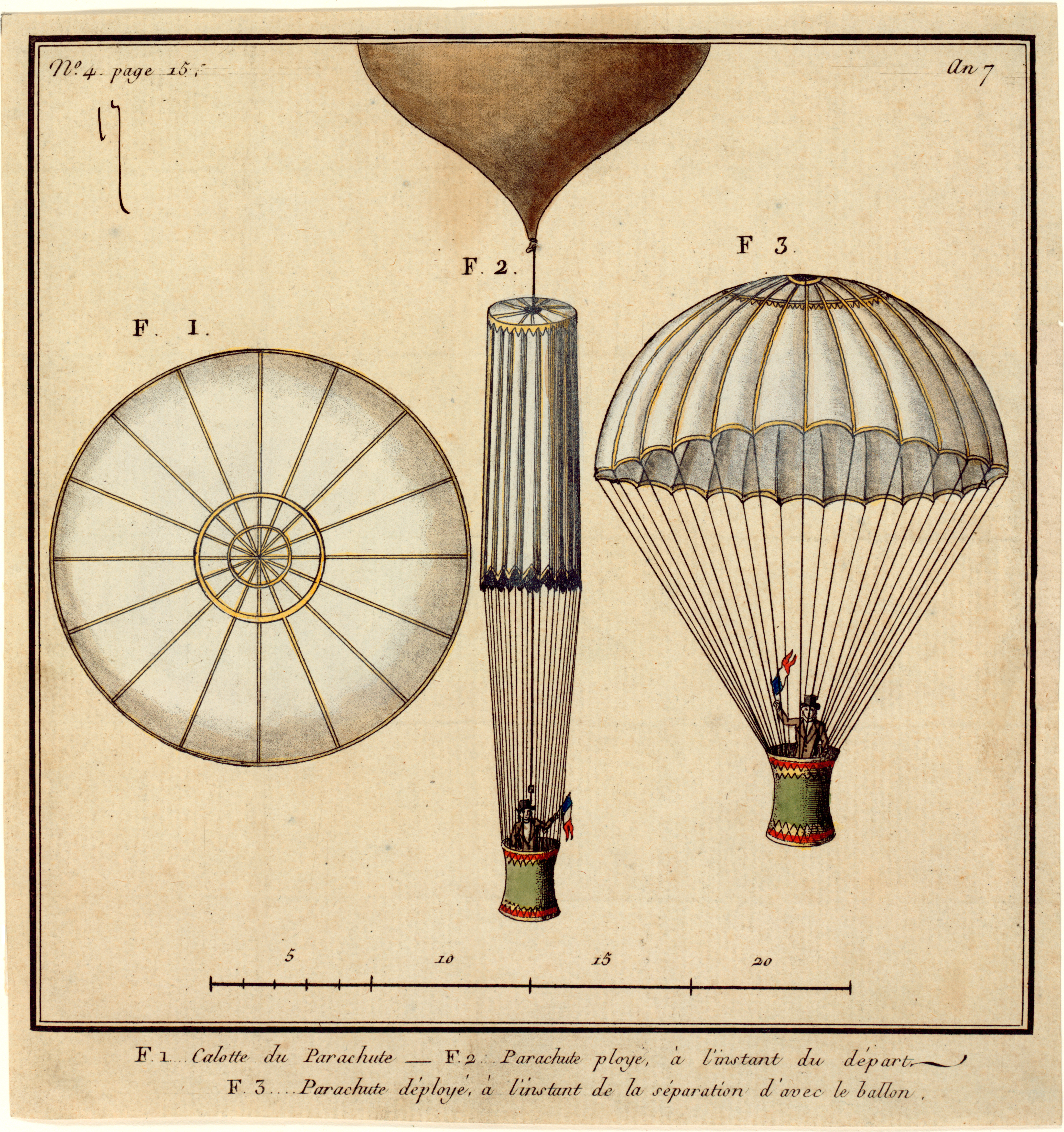 The first parachute by Jacques Garnerin, tested by himself in the park of Mousseaux, 22 October 1797. Three technical illustrations show "Calotte du parachute" (crown of parachute); "Parachute ployé, à l'instant du départe" (folded parachute, moment of release from ascending balloon); and "Parachute déployé, à l'instant de la séparation d'avec le ballon" (unfolded parachute, moment of separation). Etching with aquatint, hand-colored.